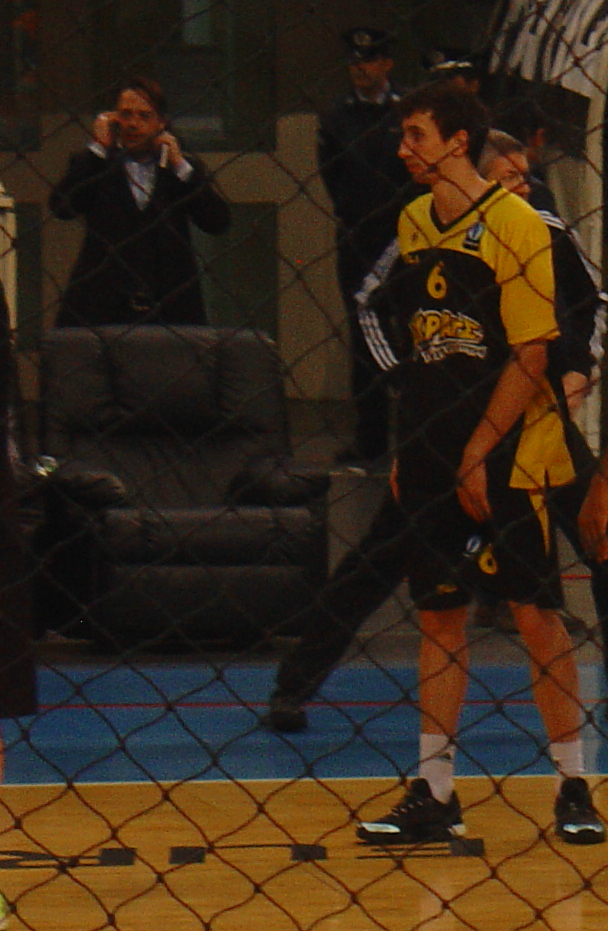 Edin Atic with AEK Athens in 2015